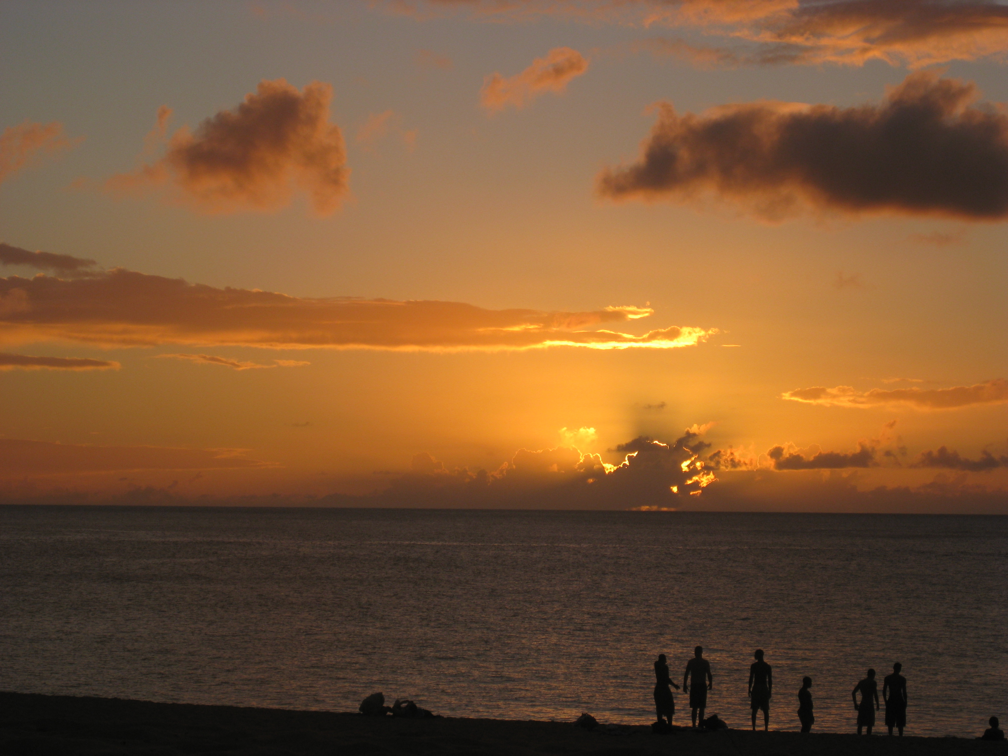 Sunset at Waimea Bay, Hawaii on the North Shore of Oahu. F-Stop: f/4.9, Exposure: 1/500sec, ISO-80, Focal Length: 19mm